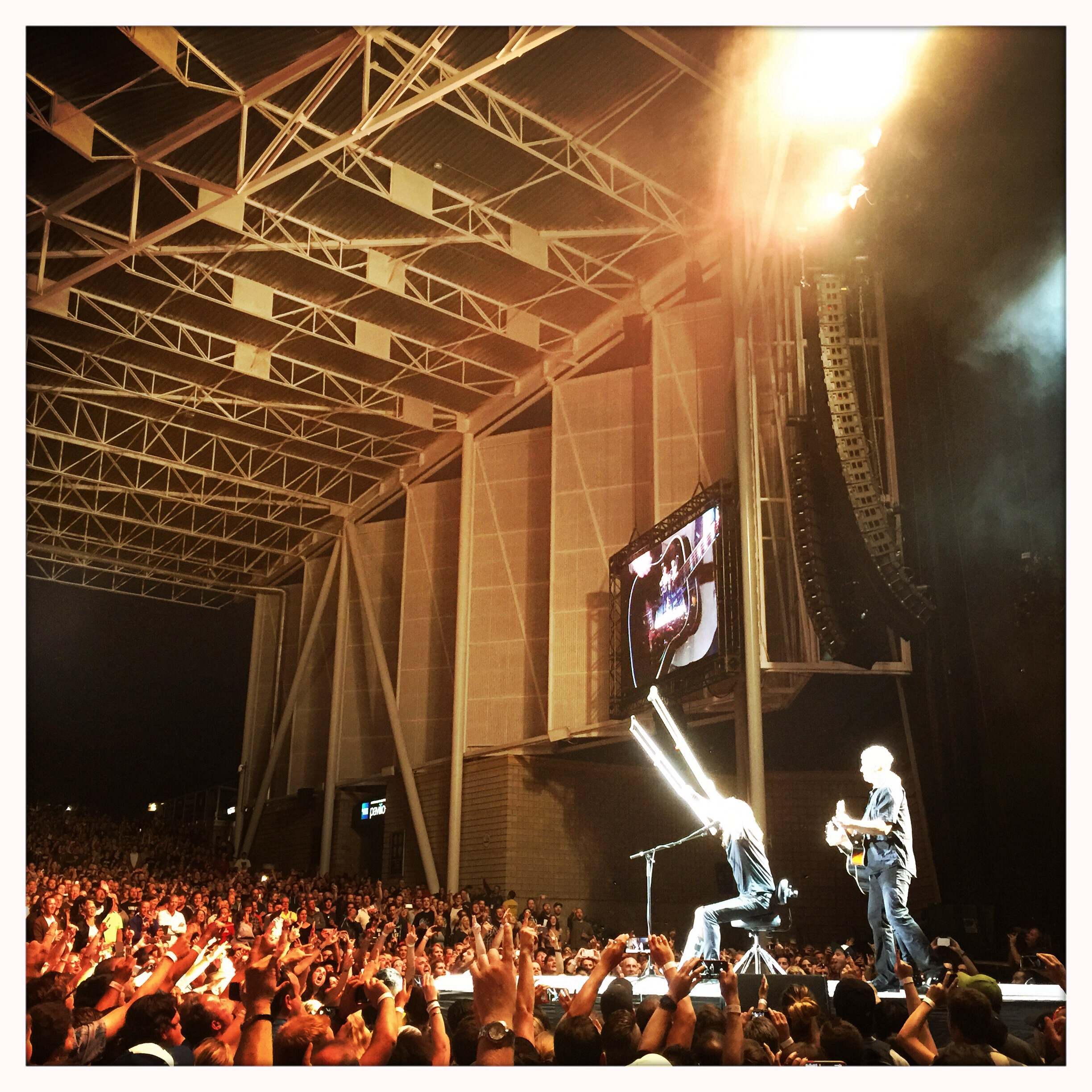 The Foo Fighters at the Molson Amphitheater in Toronto, Canada on July 8, 2015.